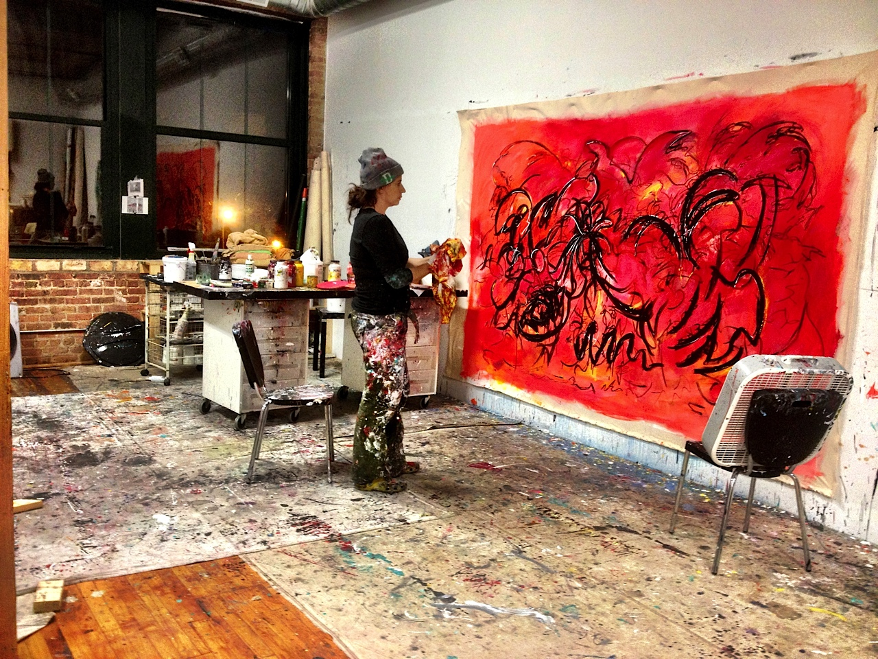 This file is a cell phone shot and depicts Danielle Monet Morse painting in her studio in Chicago, IL Fall of 2014.